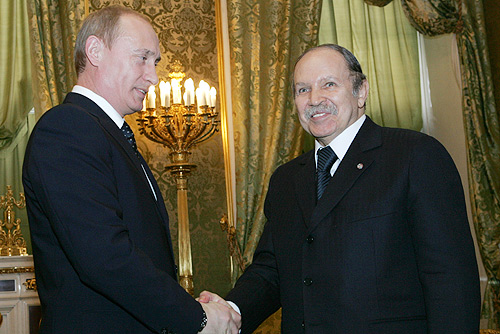 THE KREMLIN, MOSCOW. With Algerian President Abdelaziz Bouteflika.